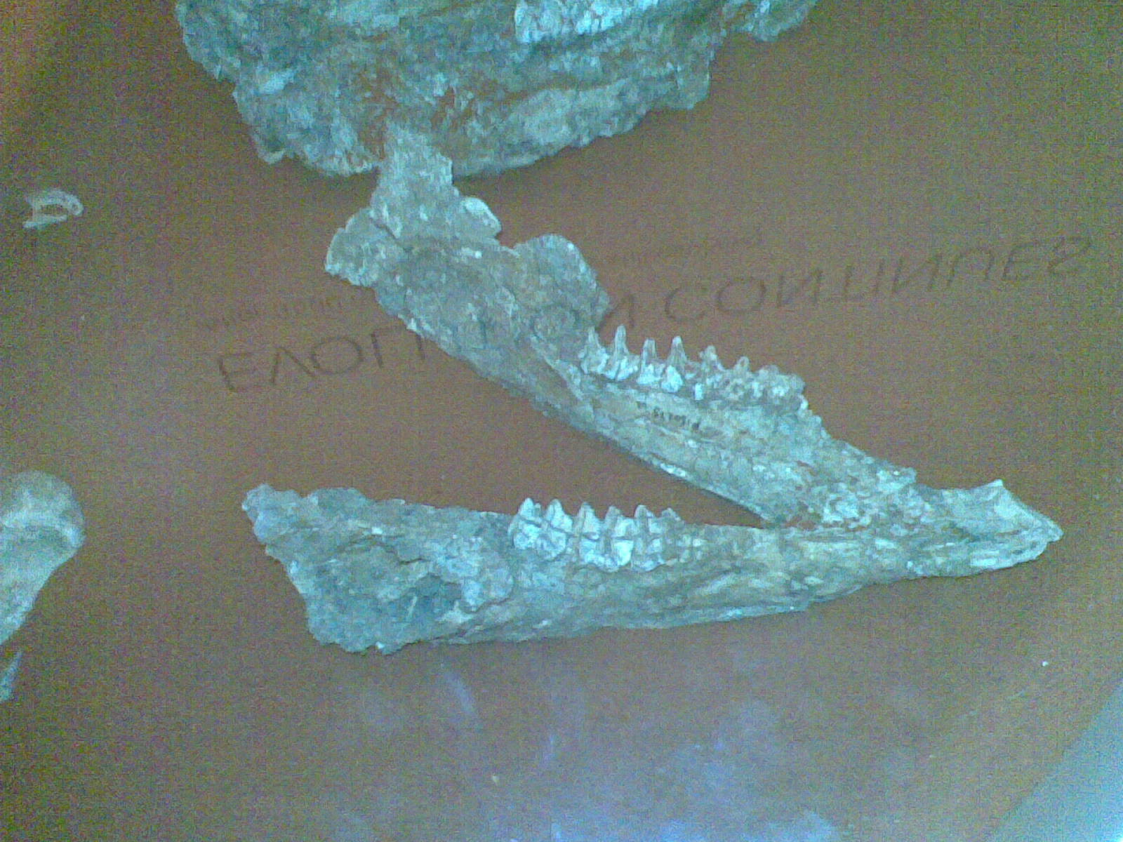 Mandible of a Sthenurus sp. Museum of Victoria.